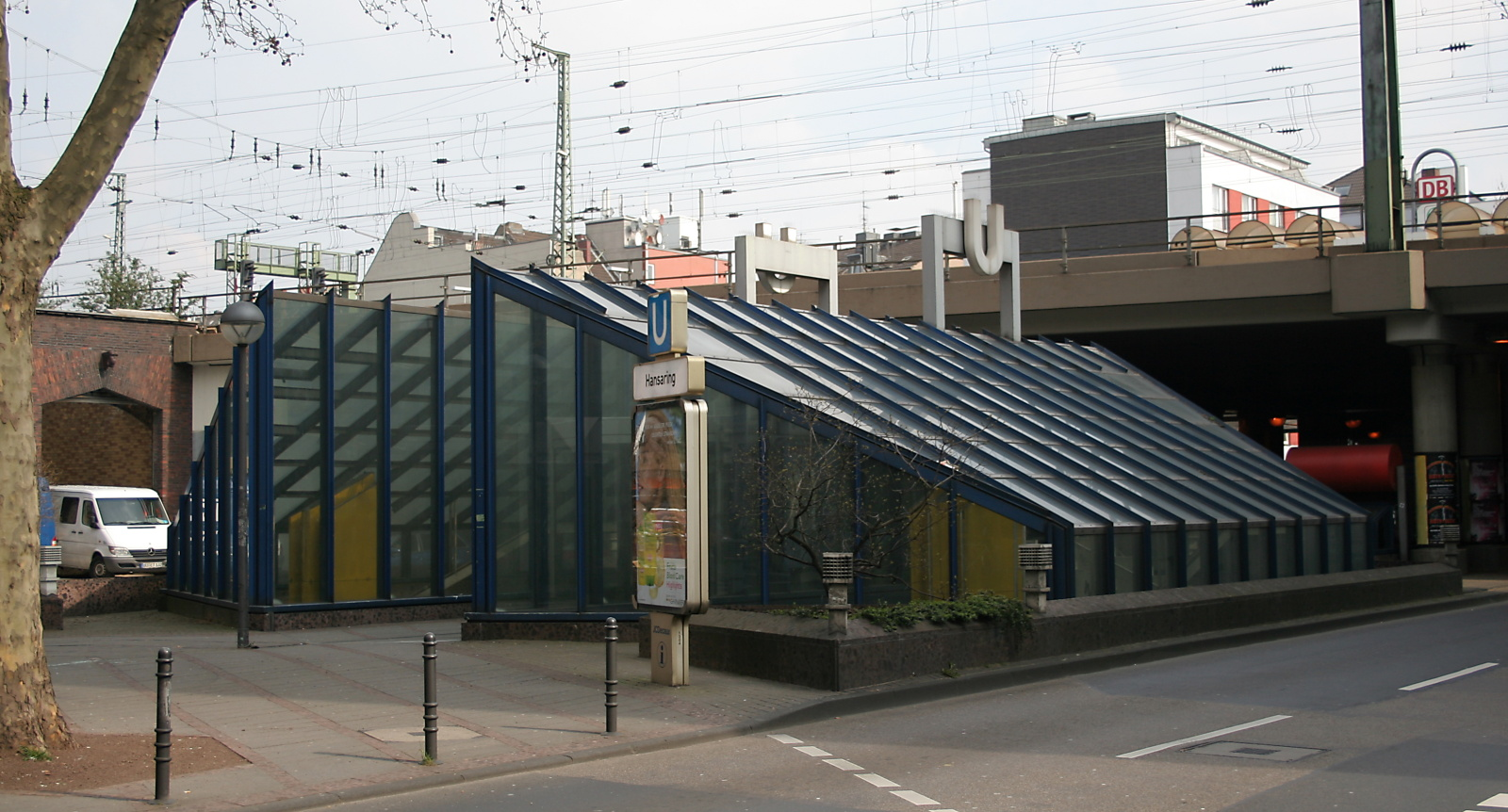 Northern entrance to the Hansaring Stadtbahn station which connects it to the S-Bahn station